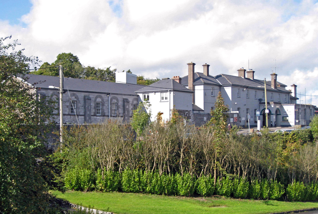 Mallow railway station building viewed from the south